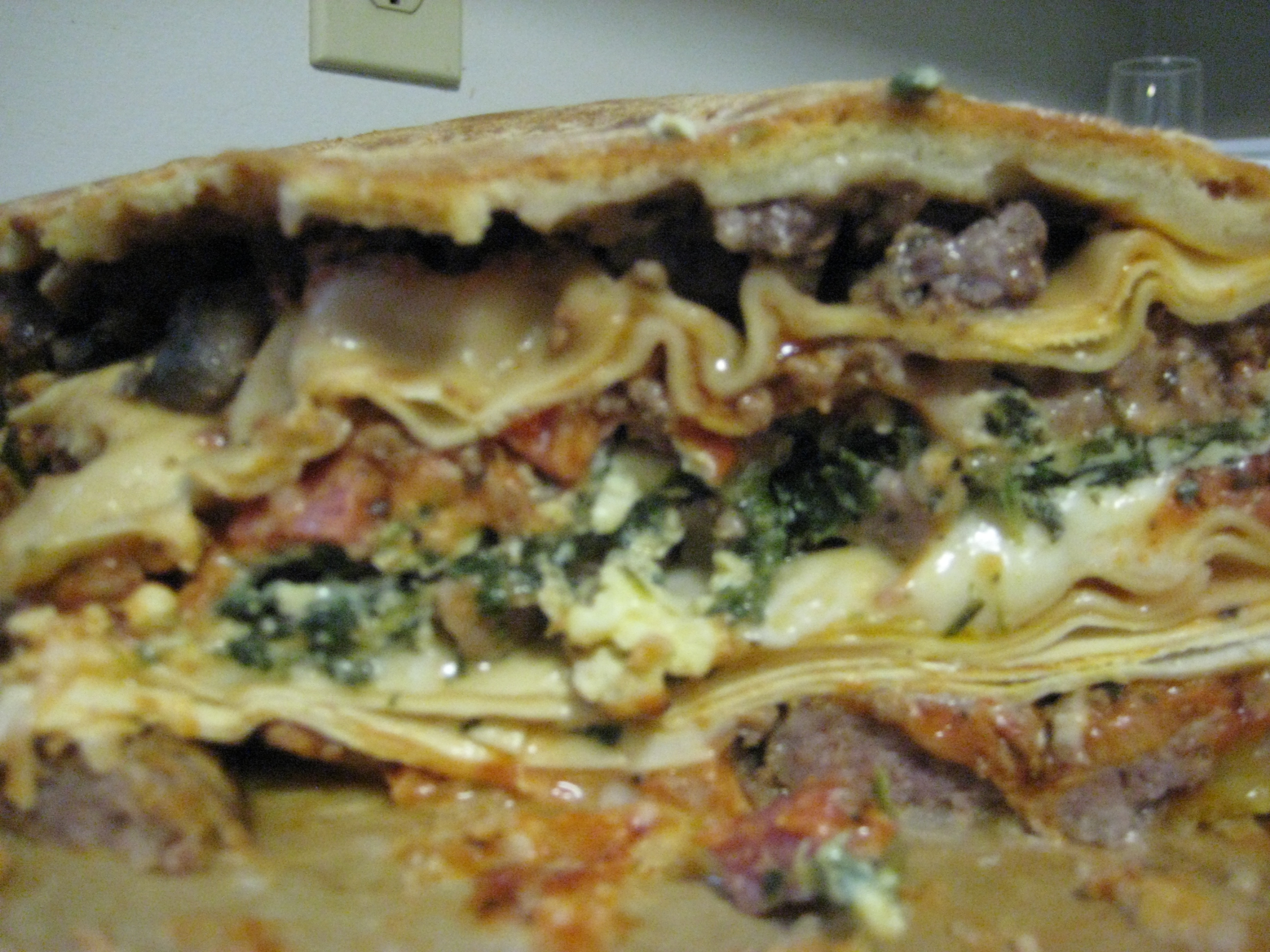 A slice of Timballo Pattadese. Timballo from a family recipe, from Pattada, Sardegna